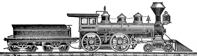 An old woodcut of a 4-4-0 locomotive. Scanned from a catalog published 1880. Woodcut was made in the 1880s, thus PD.